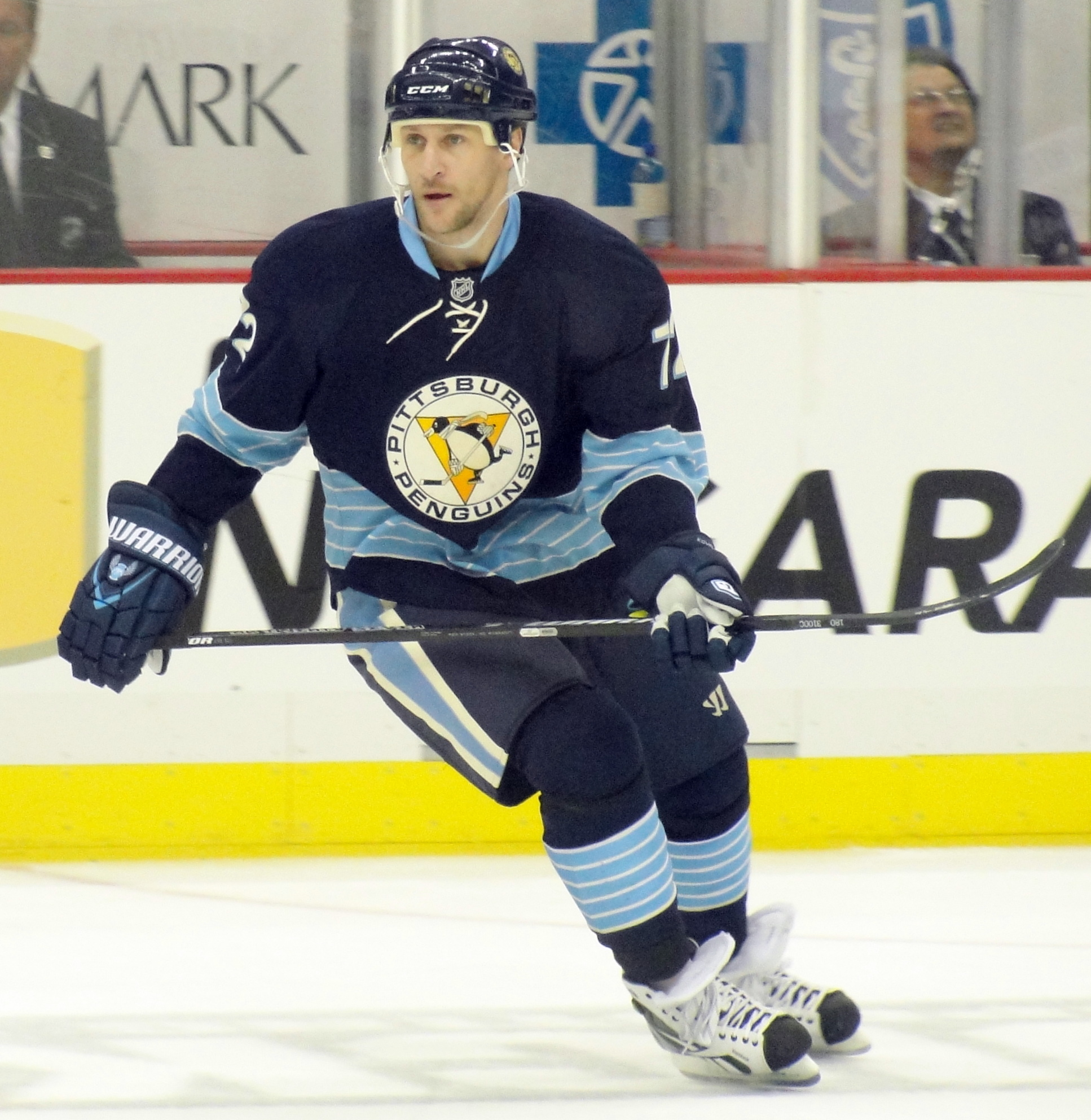 Alexei Kovalev, in his second go around with the Pittsburgh Penguins, in a game against the Montreal Canadiens, March 12, 2011 at Consol Energy Center in Pittsburgh, PA.